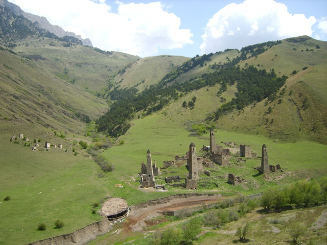 Republic of Ingushetia (Russia) - village Targim.